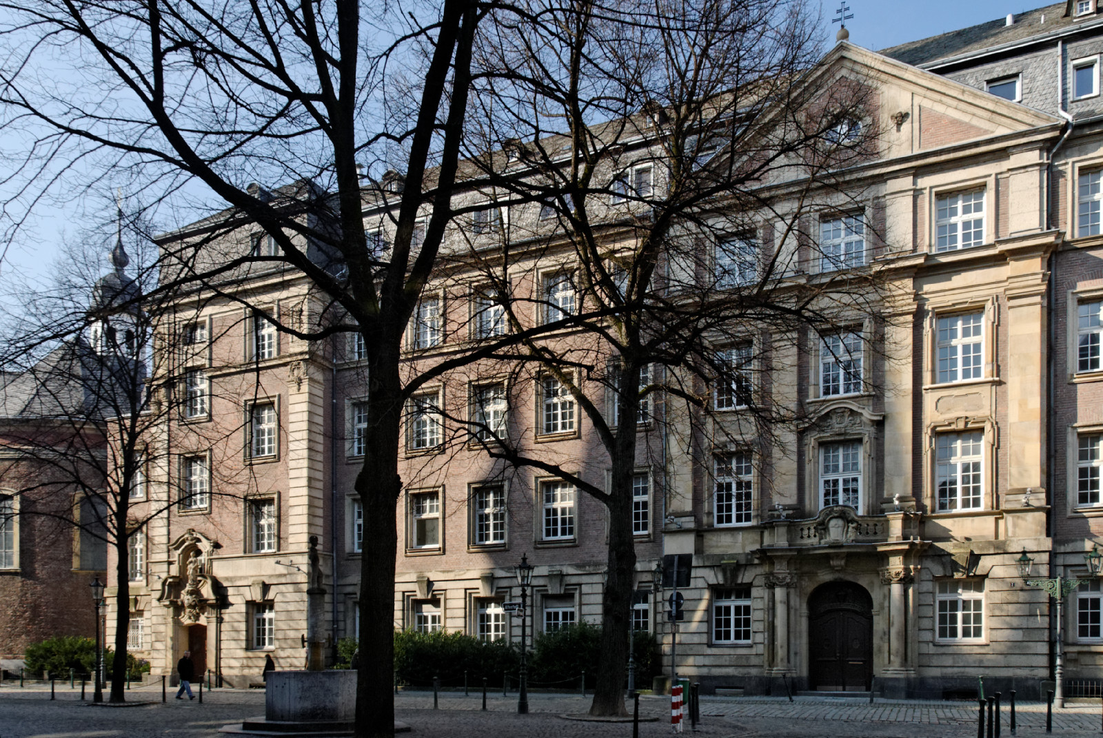 House Altestadt 2 in Düsseldorf-Altstadt, Germany